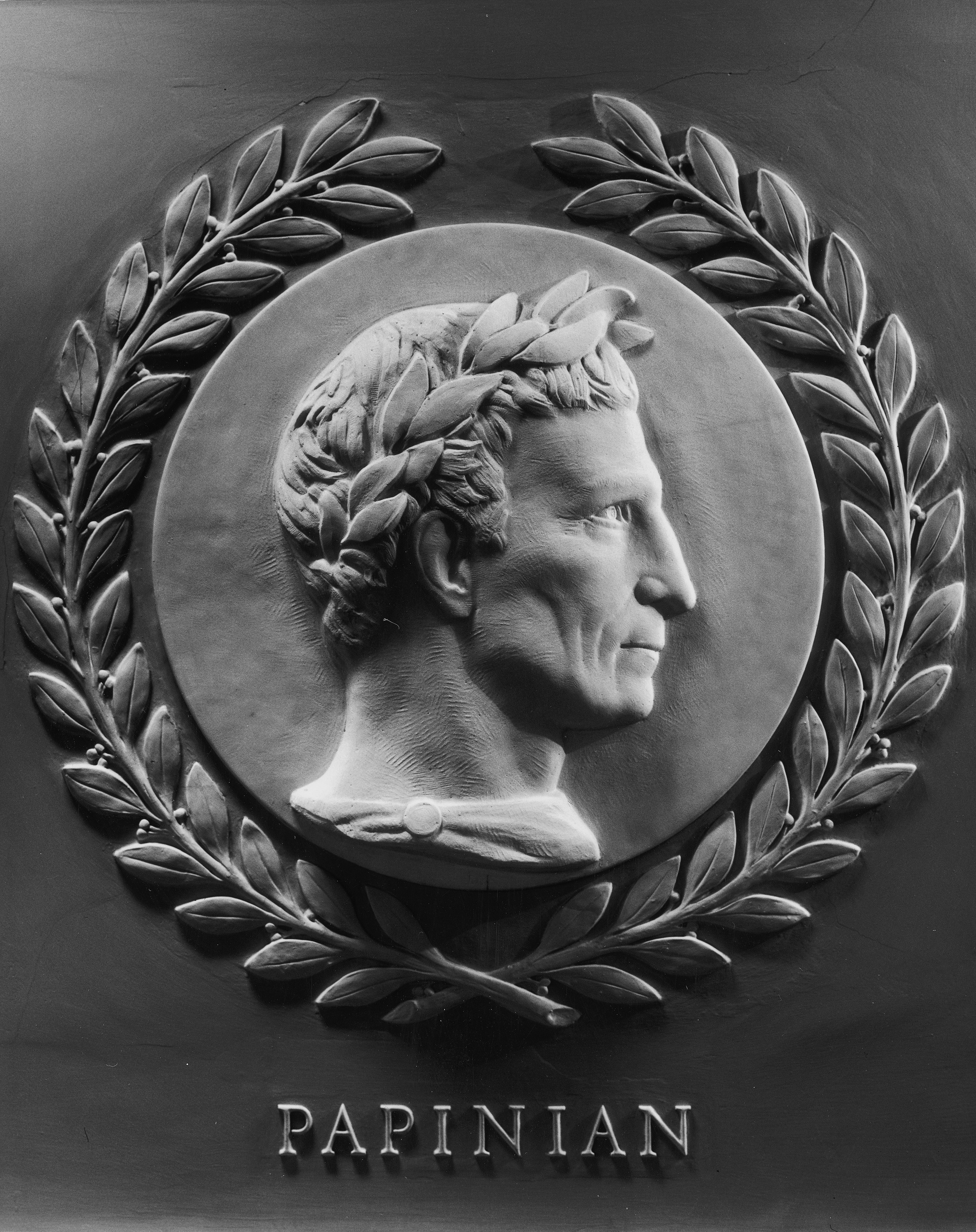 Roman jurist; author of fifty-six books about legal questions and decisions, extracts from which were influential in the development of the Justinian Code. Laura Gardin Fraser Marble, 28" dia. 1950 House of Representatives Chamber This official Architect of the Capitol photograph is being made available for educational, scholarly, news or personal purposes (not advertising or any other commercial use). When any of these images is used the photographic credit line should read “Architect of the Capitol.” These images may not be used in any way that would imply endorsement by the Architect of the Capitol or the United States Congress of a product, service or point of view. For more information visit